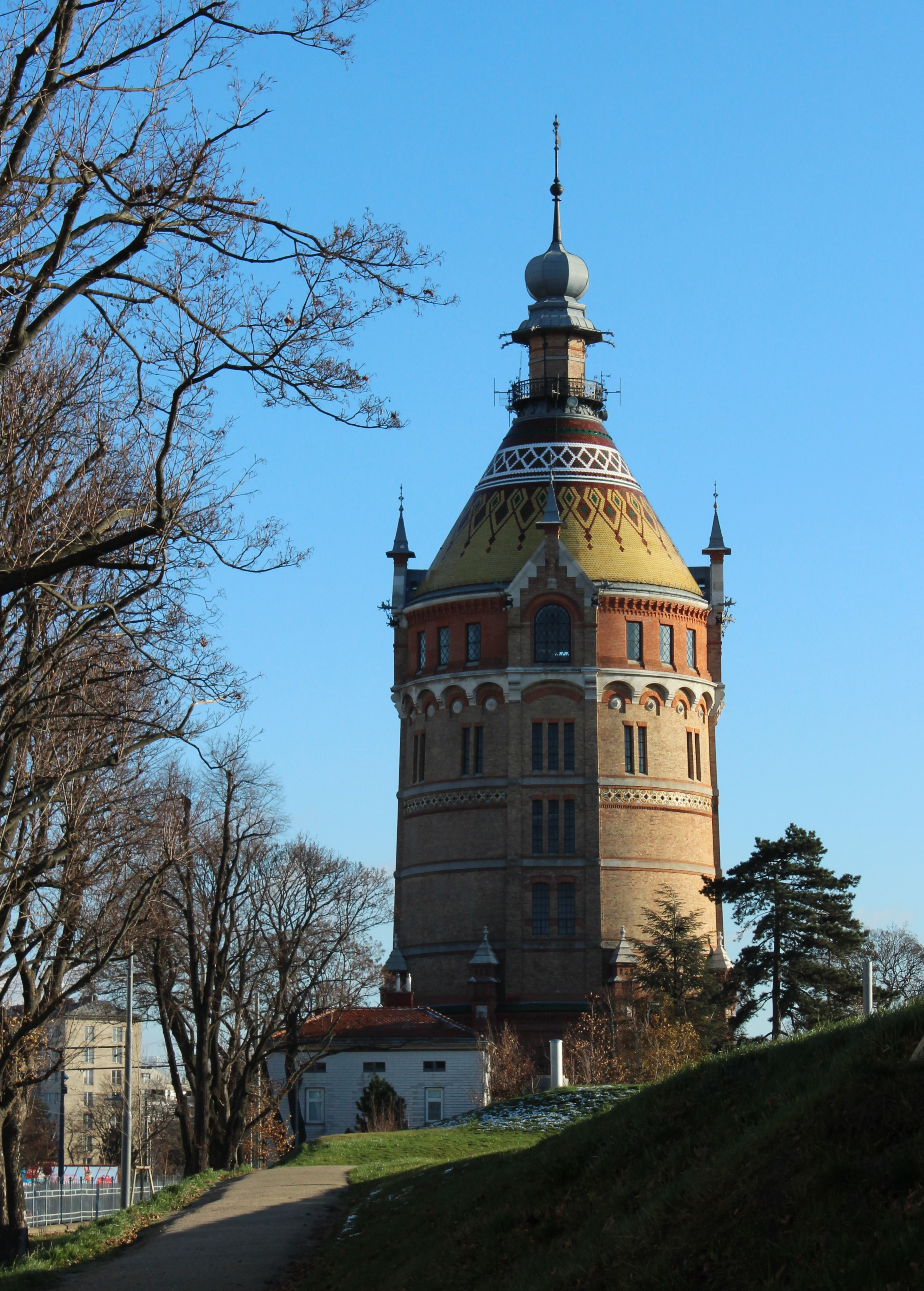 Old water tower in Vienna.